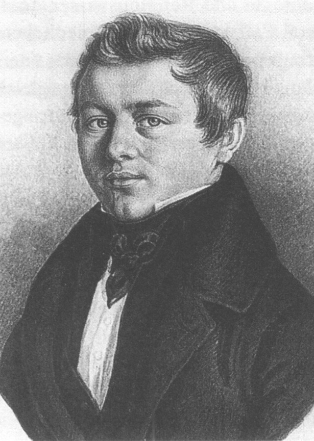 Hermann Mögling (1811-1881) German missionary